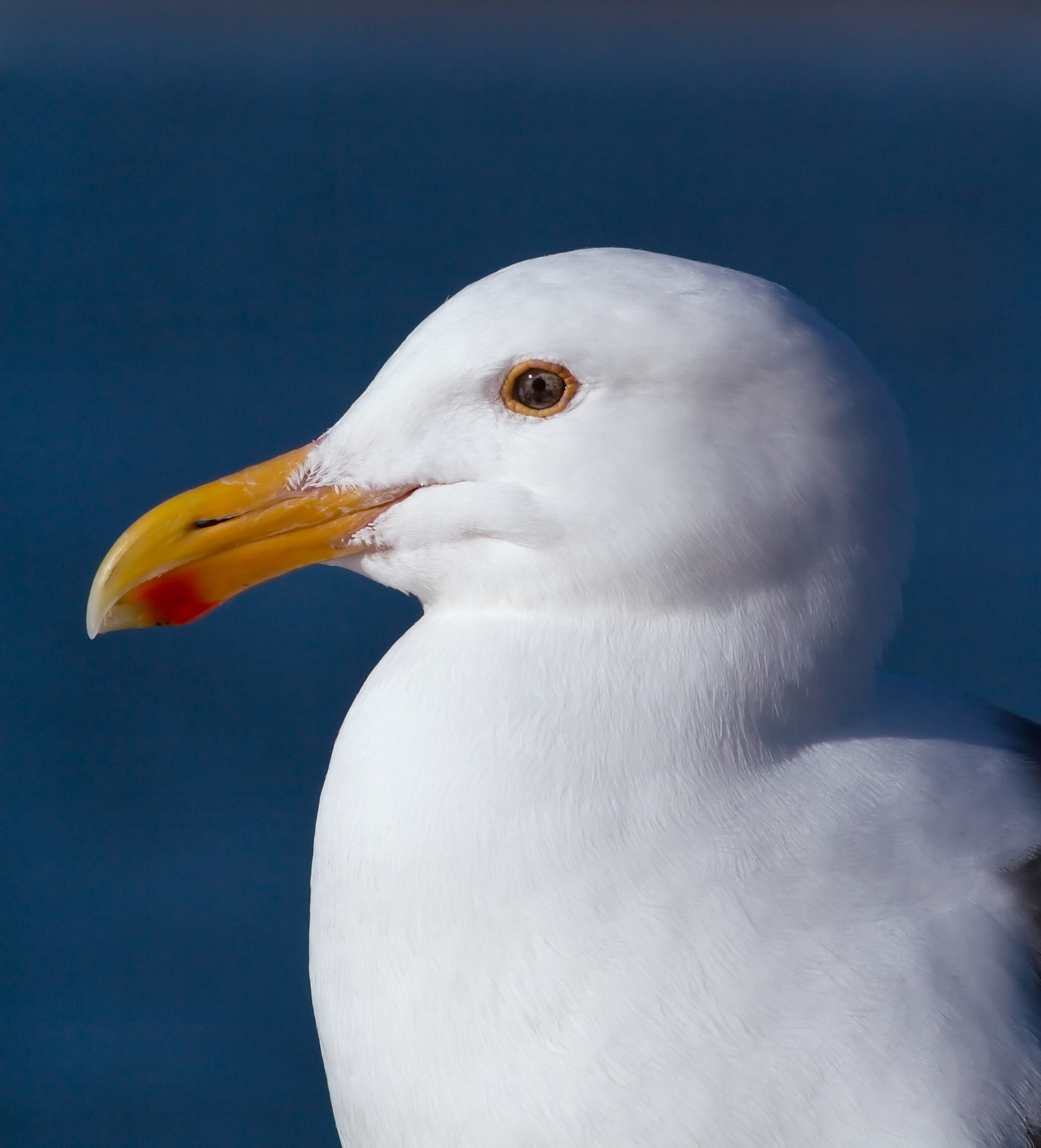 A western gull (larus occidentalis), taken in Santa Barbara, California.